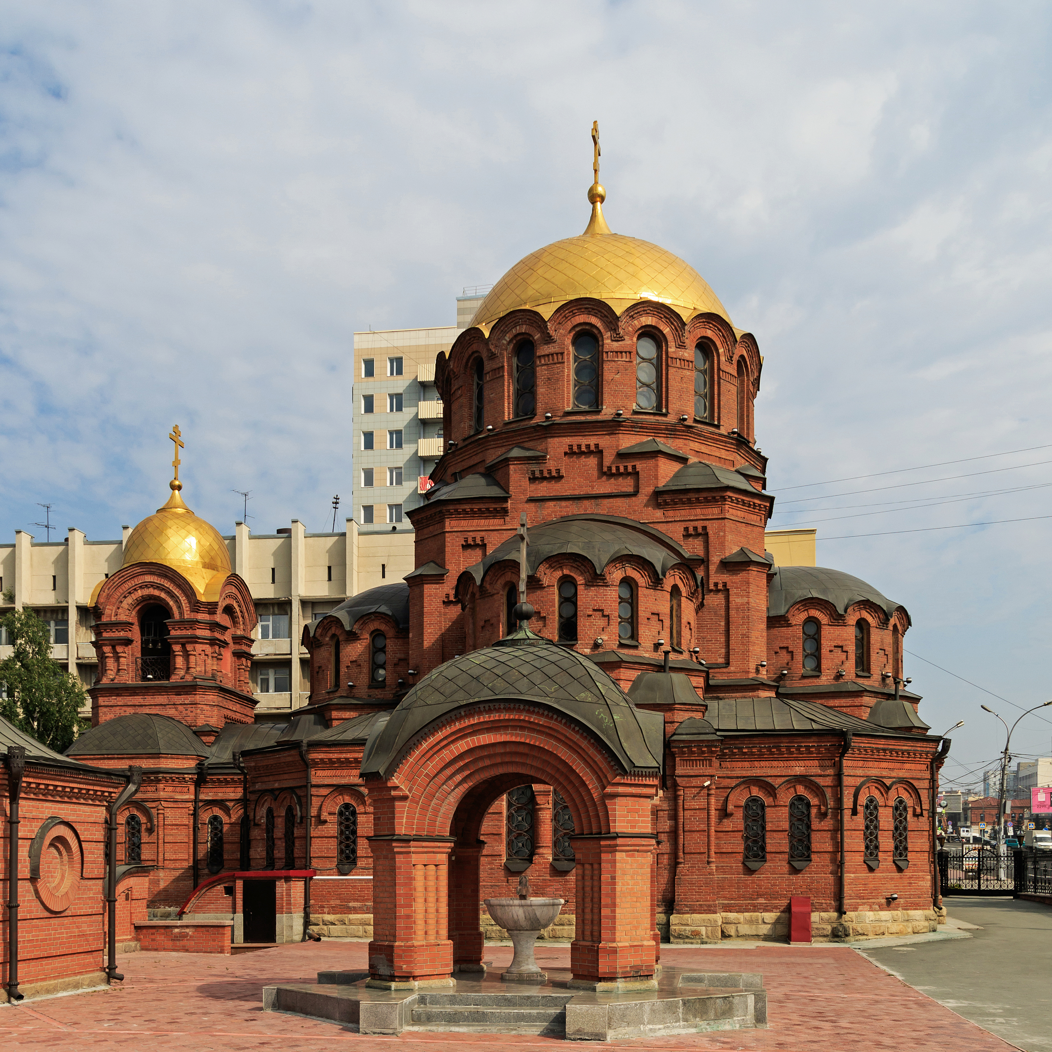 Alexander Nevsky Cathedral in Novosibirsk, Russia